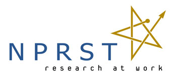 NPRST logo